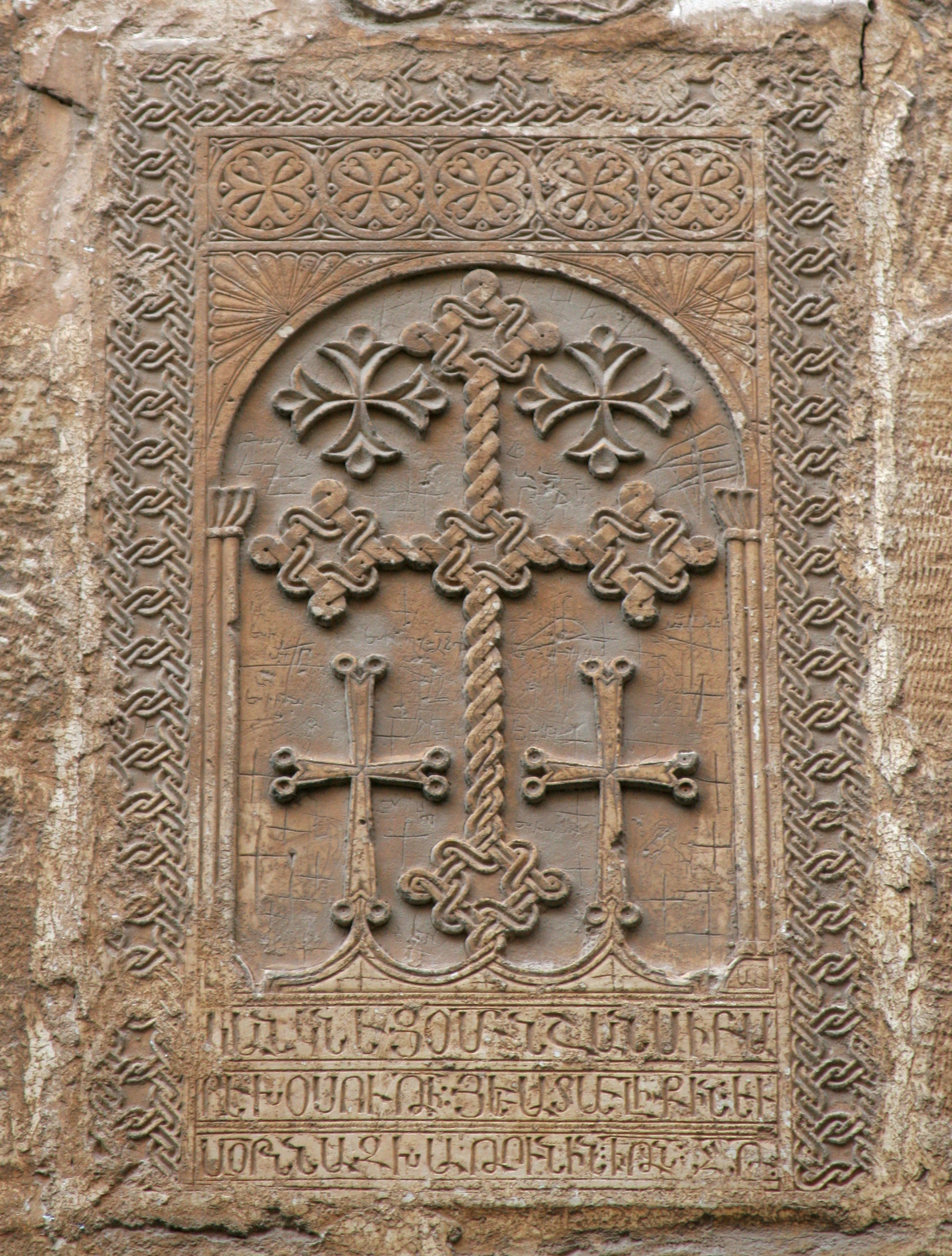 Armenian khackar (cross stone) at the Cathedral of Saint James in the Armenian Quarter of Jerusalem, 1460 (year ՋԹ - 909).